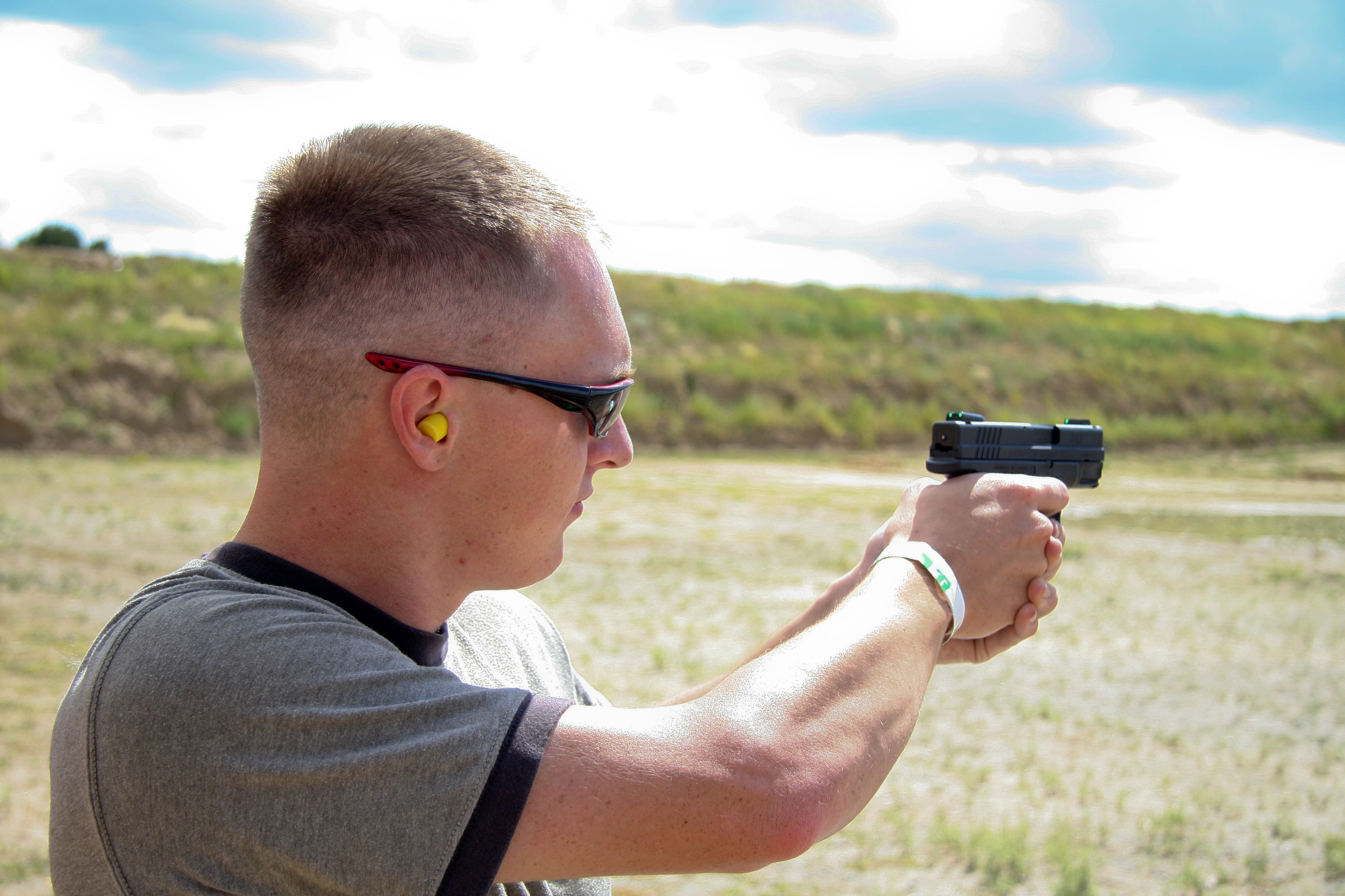 Shooting .40 caliber pistol at paper targets.Alex - pistol